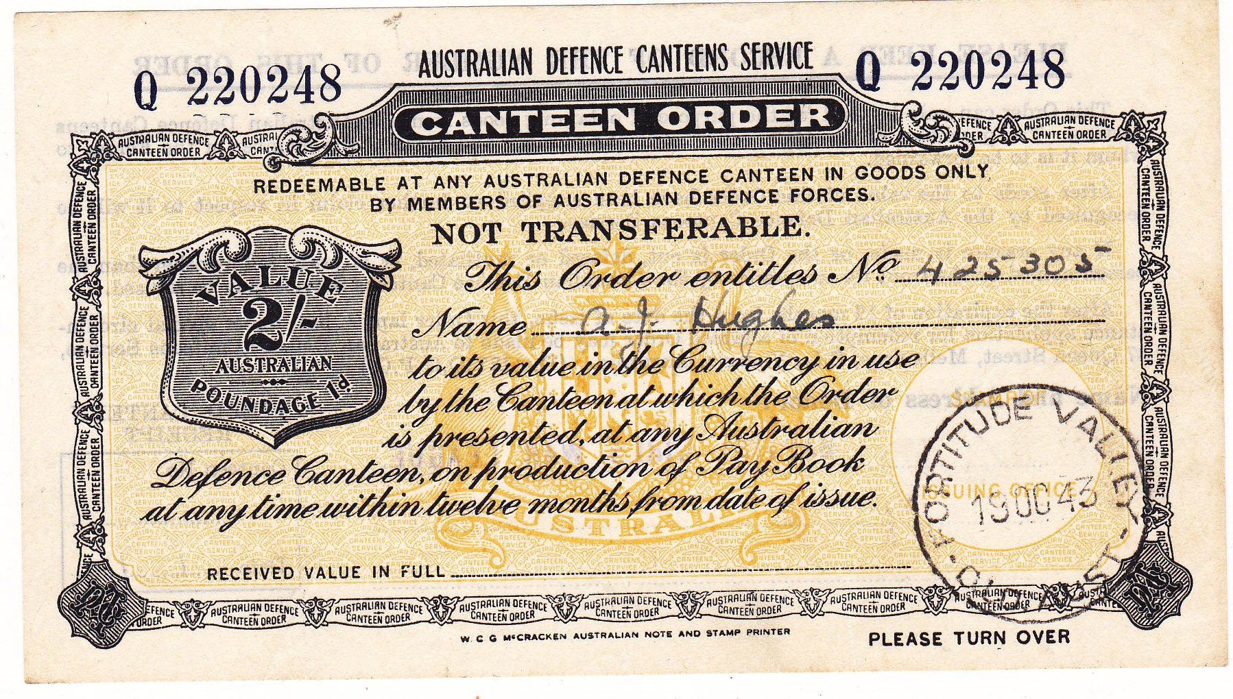 1943 Australian Defence canteen order for 2 shillings issued at Fortitude Valley. Not used as the recipient was at an RAF base in England and presumably had no ready access to an Australian canteen.